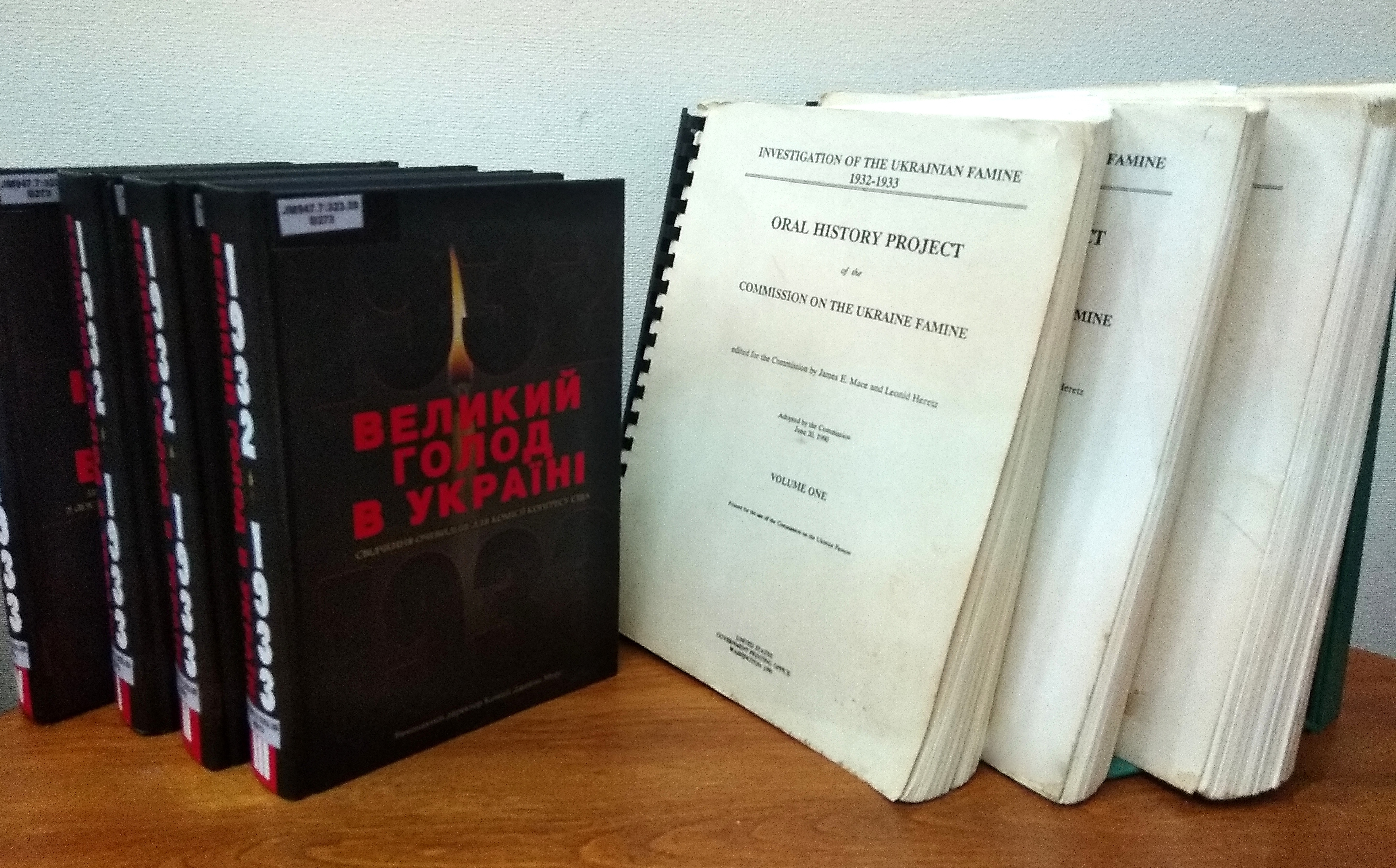 Investigation of the Ukrainian Famine, 1932—1933: Oral History Project of the Commission on the Ukraine Famine